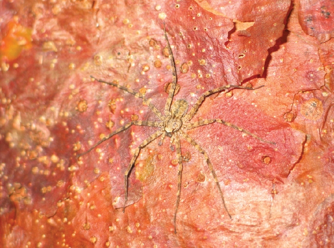 Selenops lindborgi